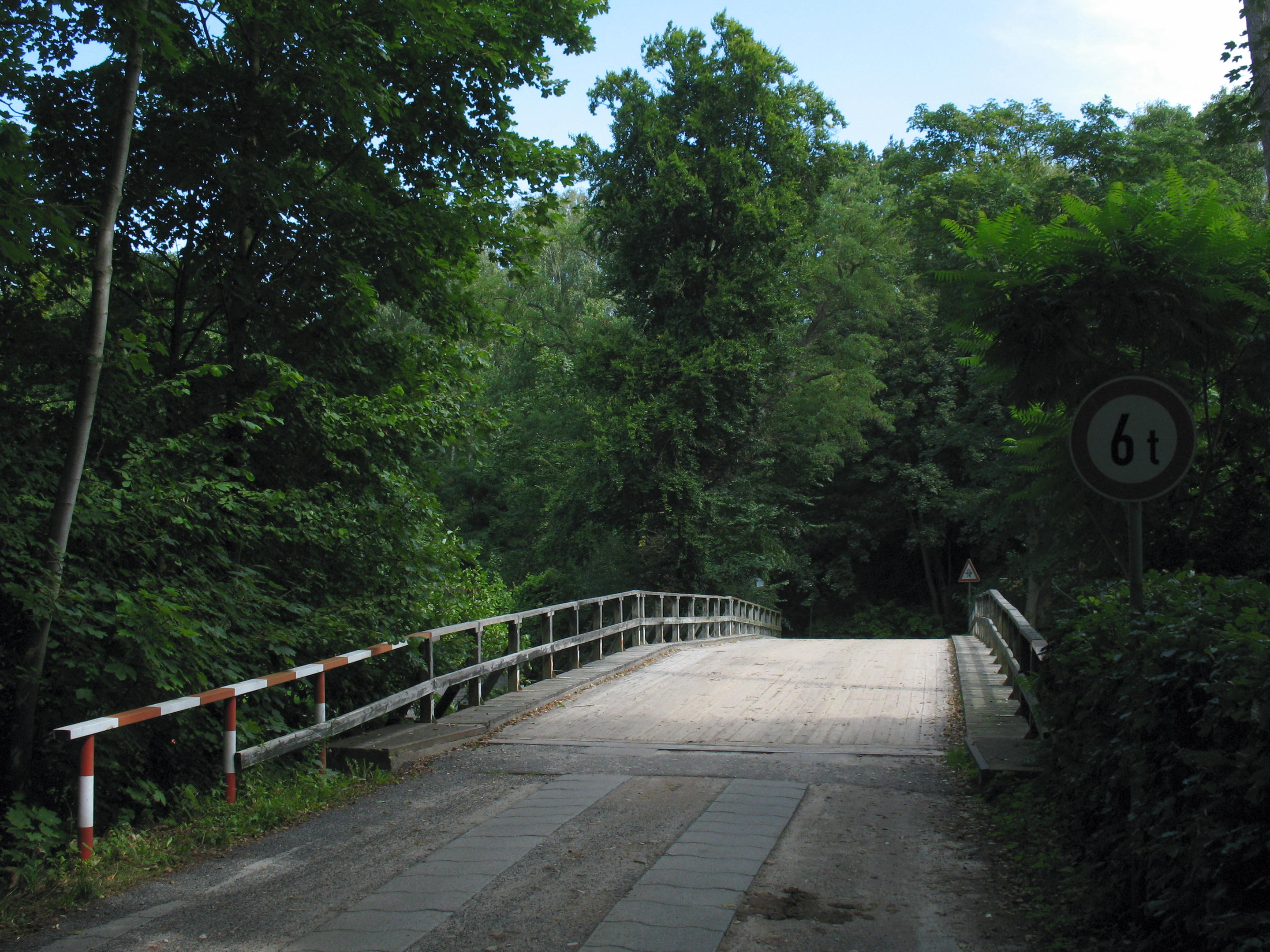 Wooden bridge between Neuruppin-Stendenitz and Neuruppin-Zermützel in Brandenburg, Germany